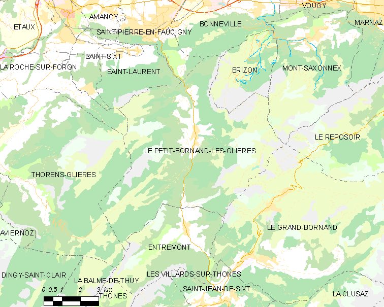 Map of French municipality Le Petit-Bornand-les-Glières